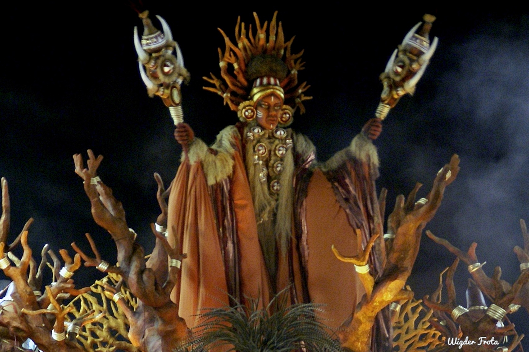 From the Series "Samba Schools, Rio de Janeiro" Carnival 2007 Photo: Wigder Frota